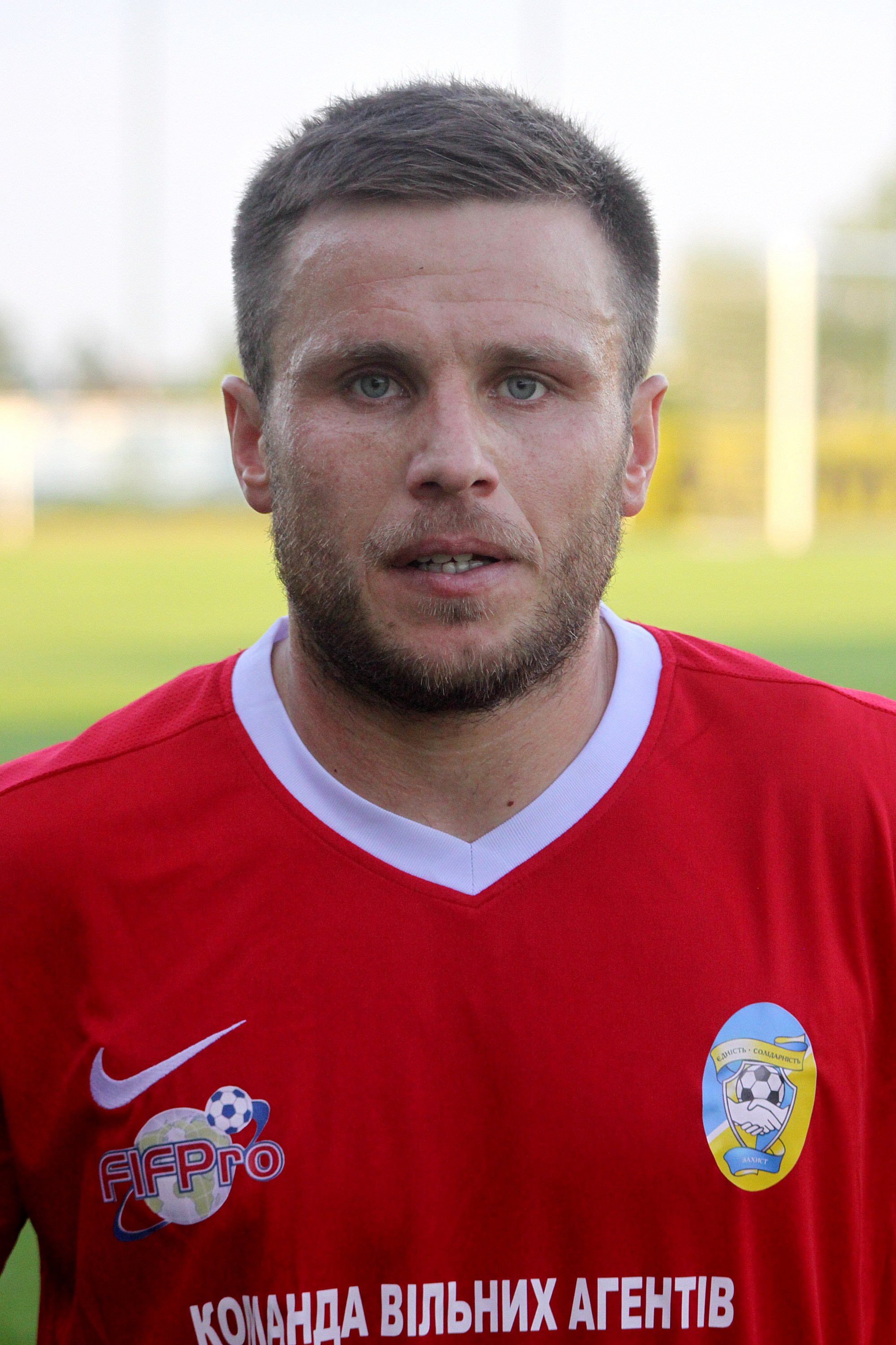 FIFPro Tournament 2015, Match Austria (white shirts) vs. Ukraine (red shirts), 26.06.2015 in Draßburg. – The photo shows Igor Oshchypko.